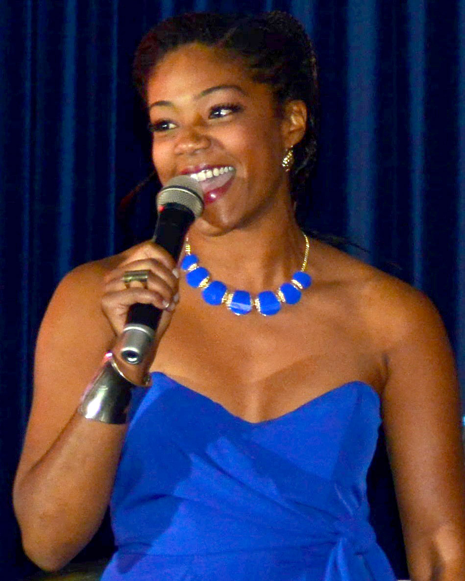 Tiffany Haddish, comedian, tells jokes to audience members during a performance October 21, 2013, at Incirlik Air Base, Turkey. Her act was part of a tour sponsored by Armed Forces Entertainment to provide comedic relief to service members overseas.